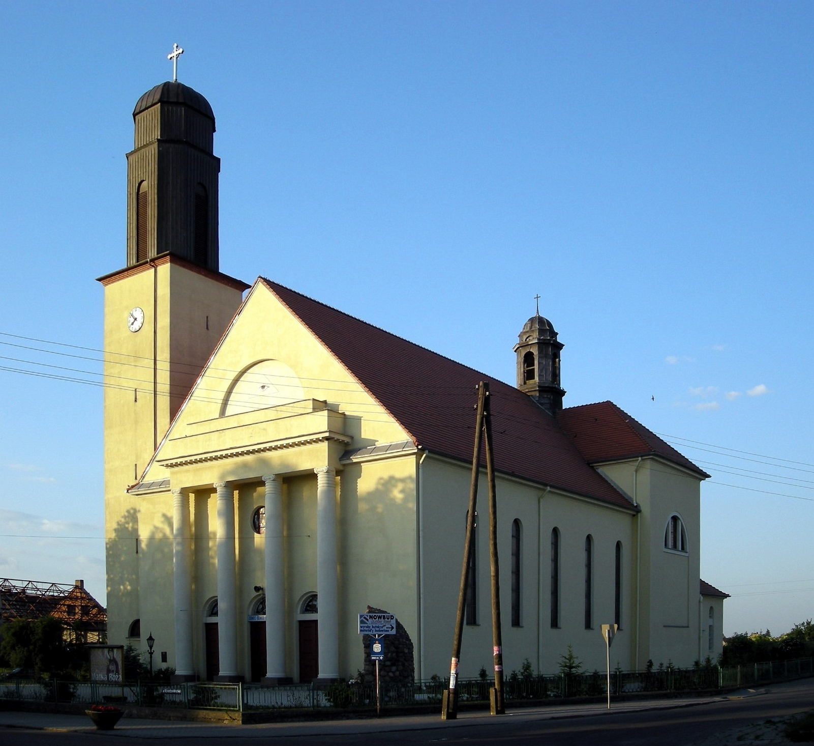 The church in Gołańcz, Poland.